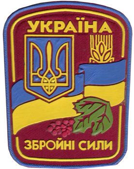 Left sleeve patch for the Ukrainian Army, used by everyone except, Navy, Air Force and airmobile units